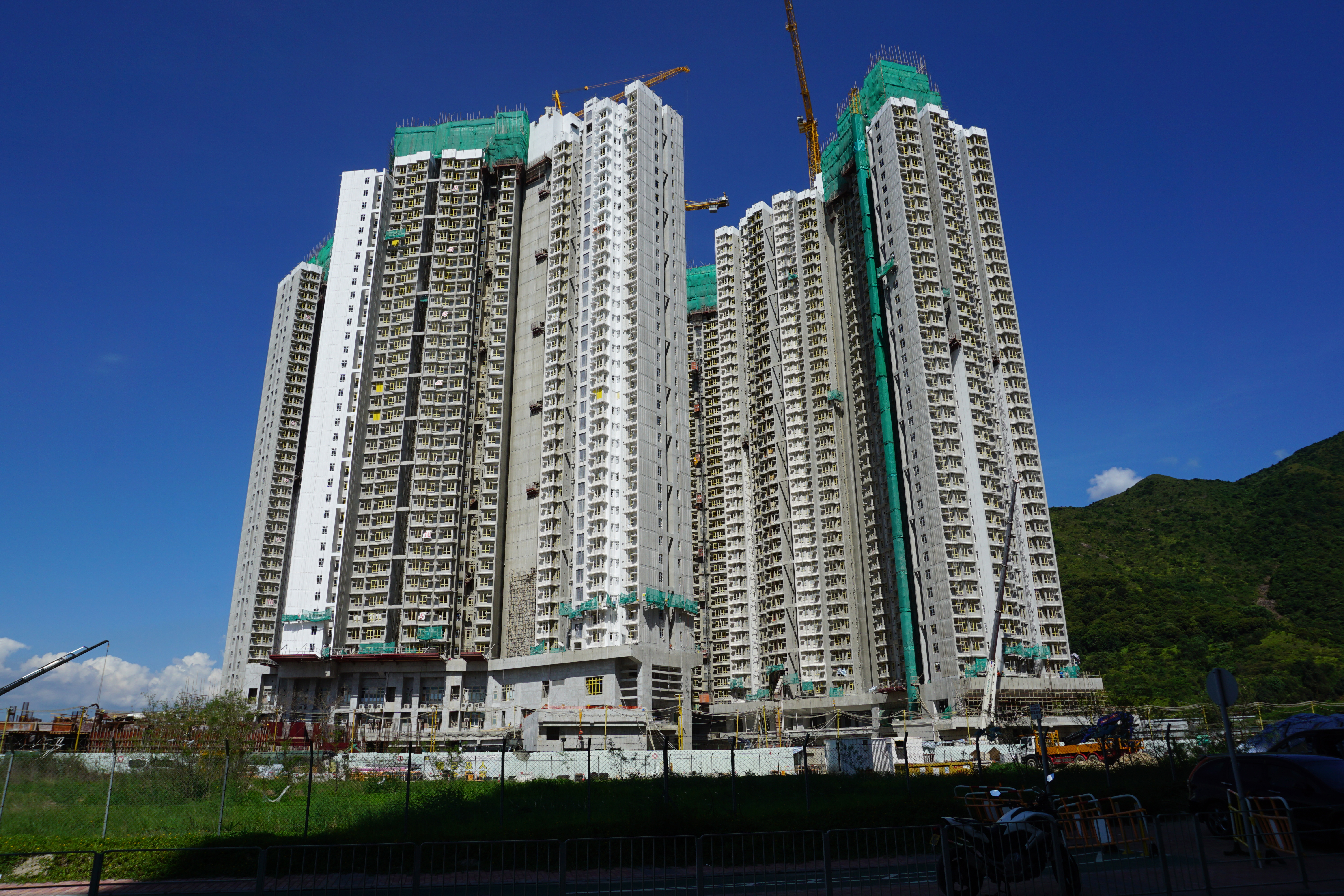 Ying Tung Estate in Tung Chung, Hong Kong.